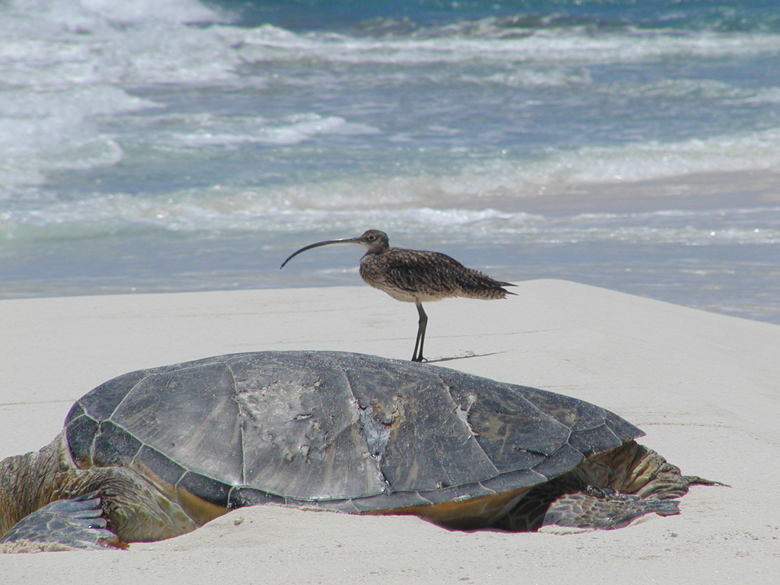 Far Eastern Curlew Numenius madagascariensis at French Frigate Shoals